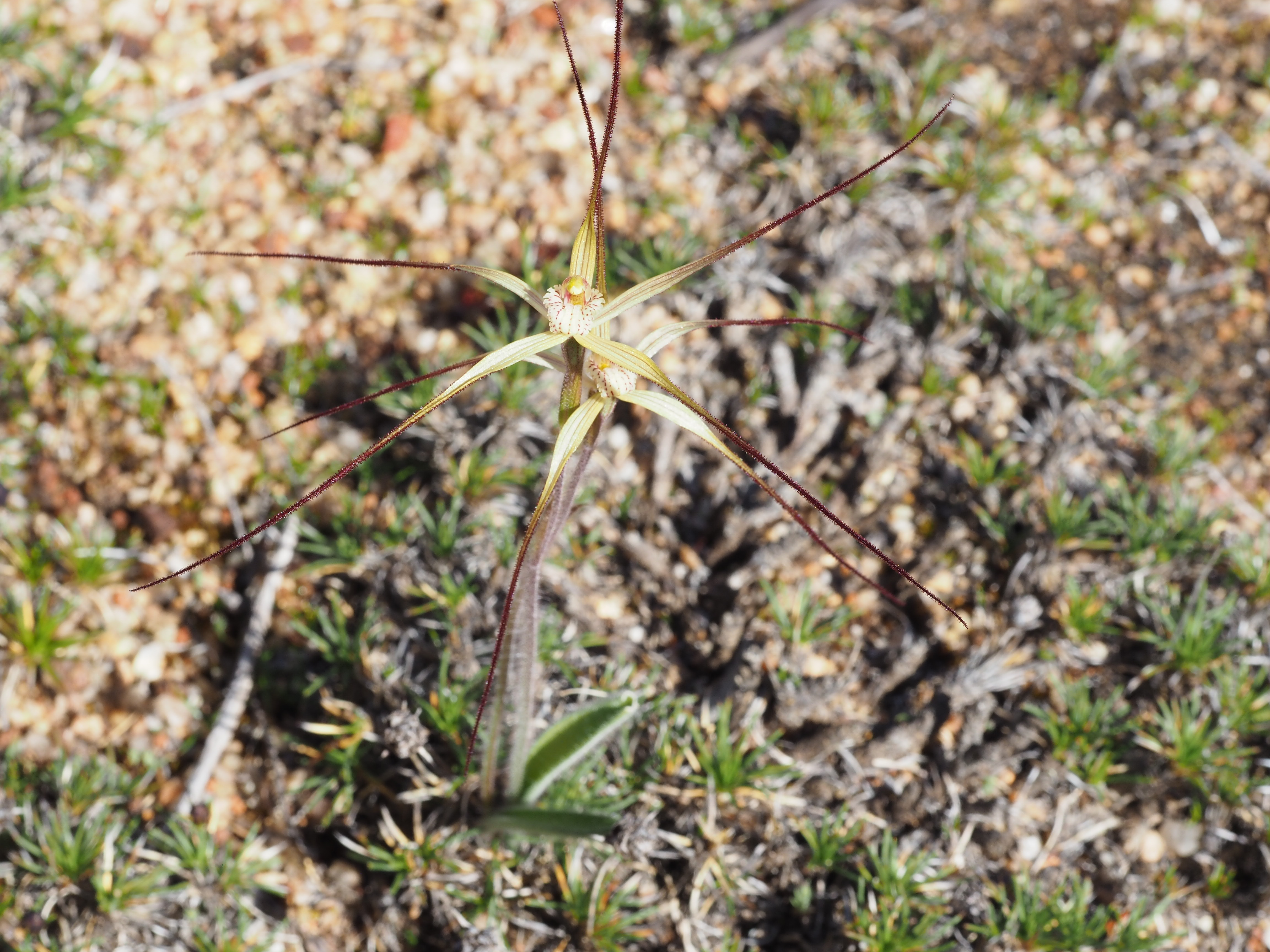 Caladenia dimidia in Dragon Rocks Nature Reserve near Hyden, Western Australia